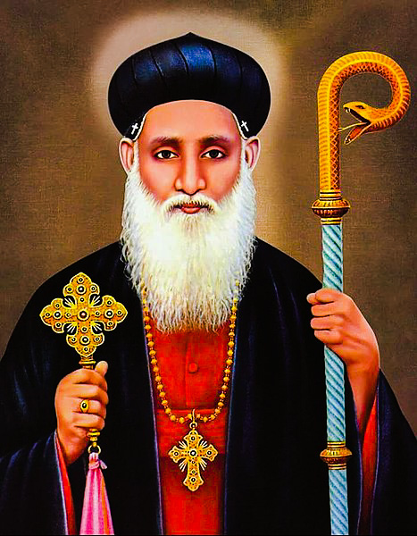 A copy of the portrait of Mar Gregorios Abdul Jaleel